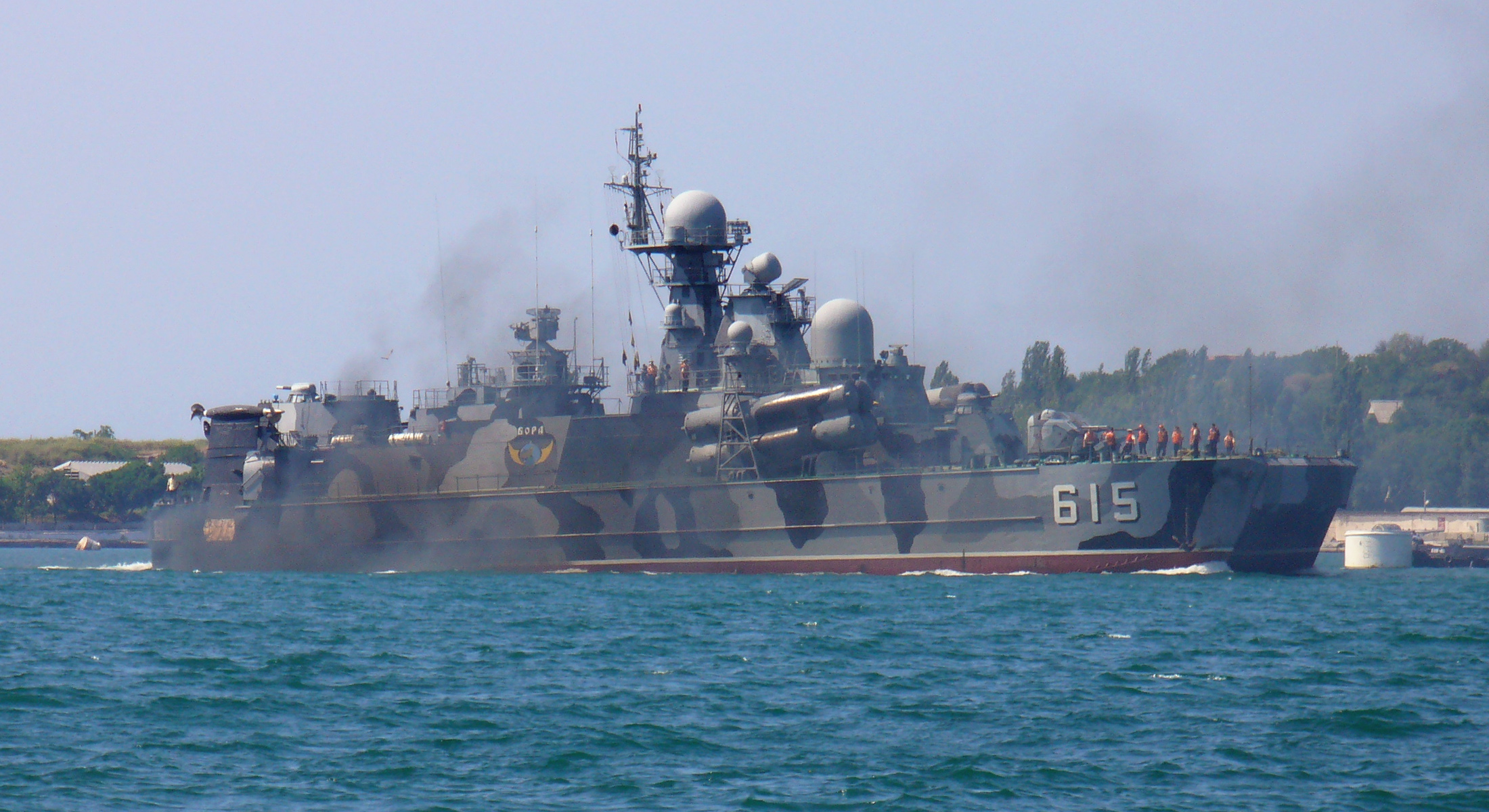 The Bora-class hoverborne guided missile corvette of the Russian Navy. Project 1239. First name "Sivuch", which was later renamed "Bora". The Southern bay of Sevastopol.